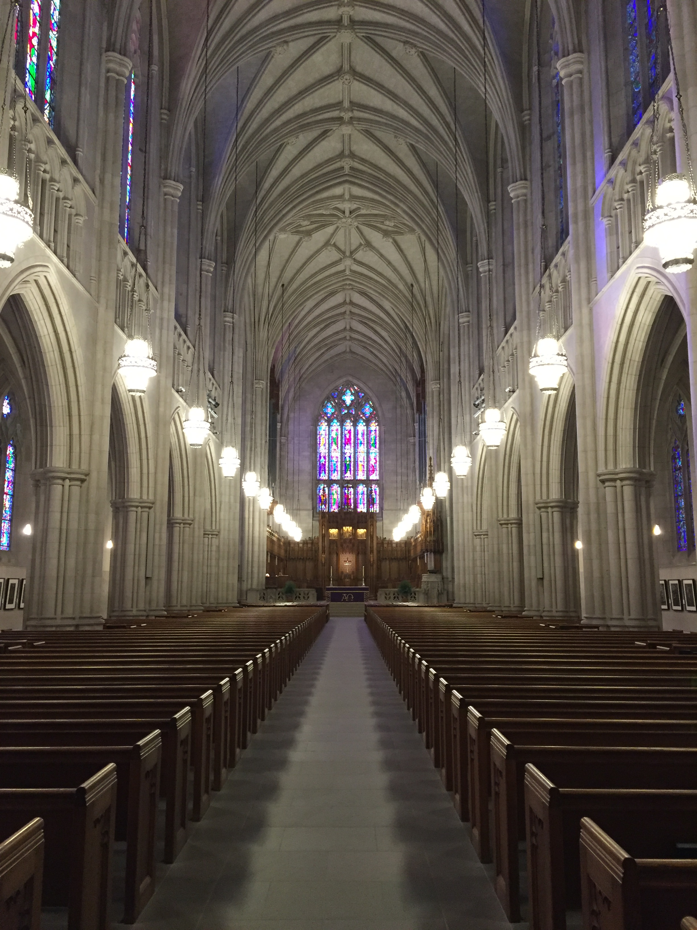 Interior of Duke Chapel in Durham, North Carolina in 2017